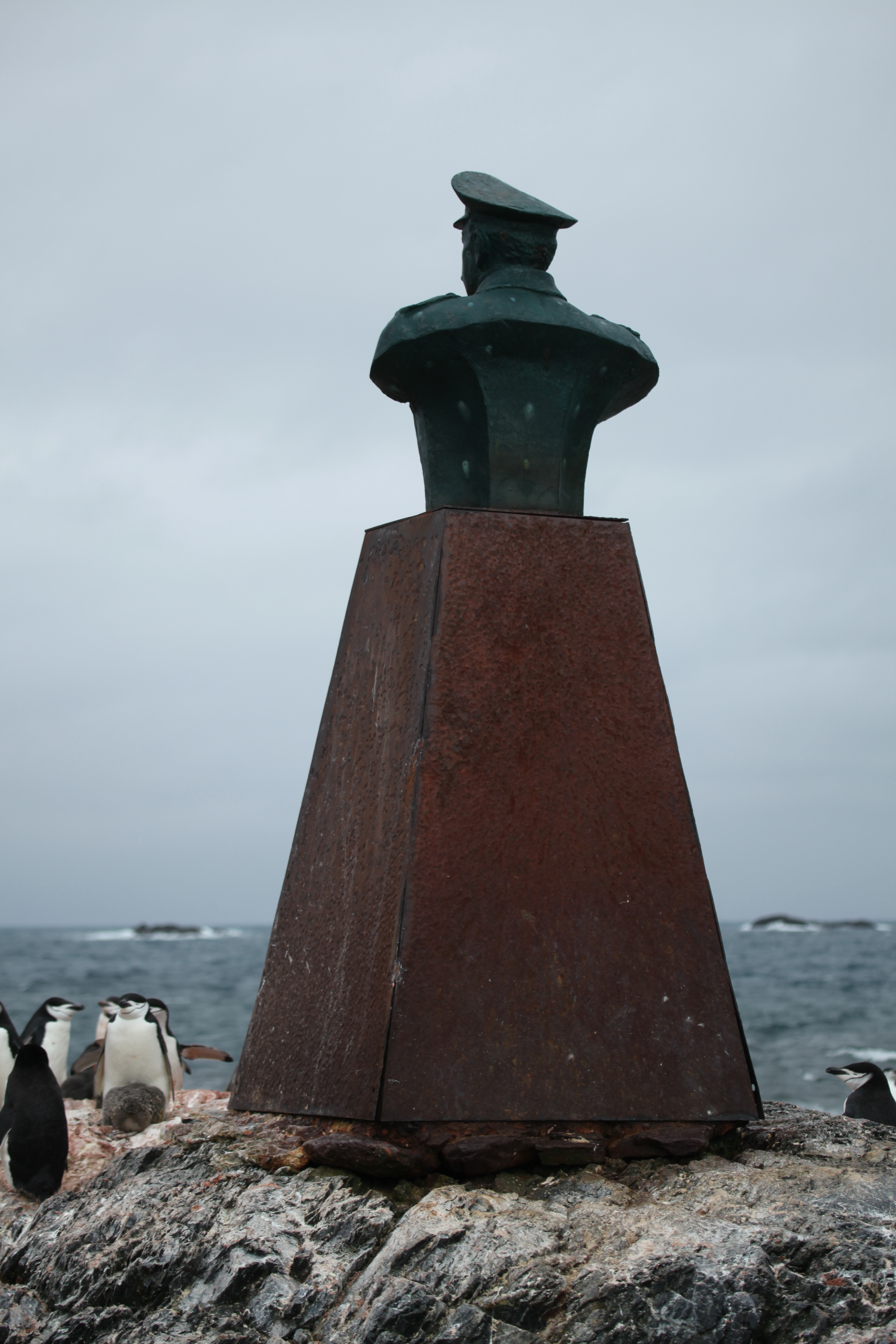 In 1916, a Chilean navy ship commanded by Piloto Pardo rescued 22 of Shackleton's men. The men had spent four months stranded at Point Wild.